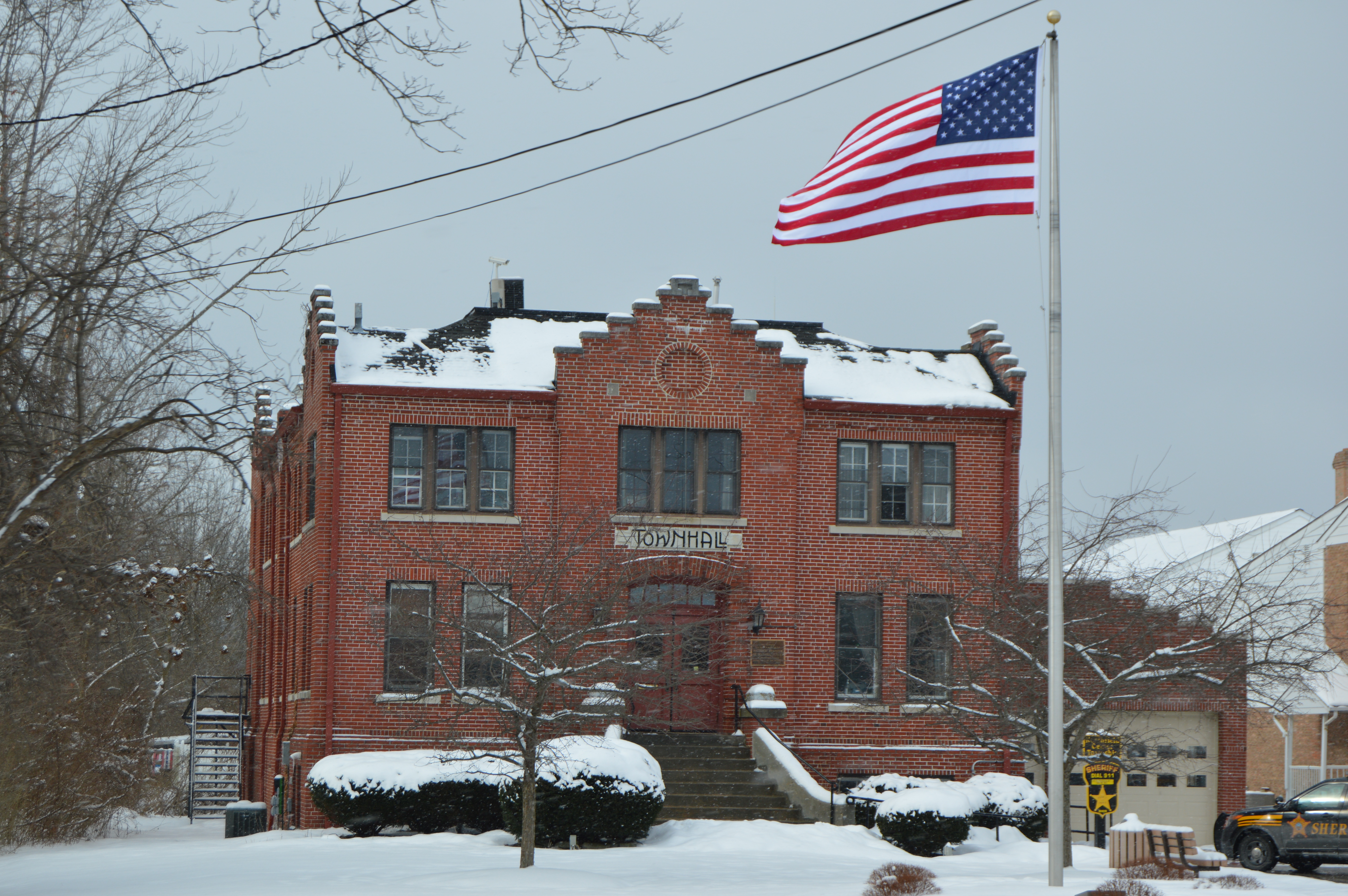 Front and southern side of the Northfield Town Hall, located at 9546 Brandywine Road in Northfield Center Township, Summit County, Ohio, United States. Built in 1909, it is listed on the National Register of Historic Places.